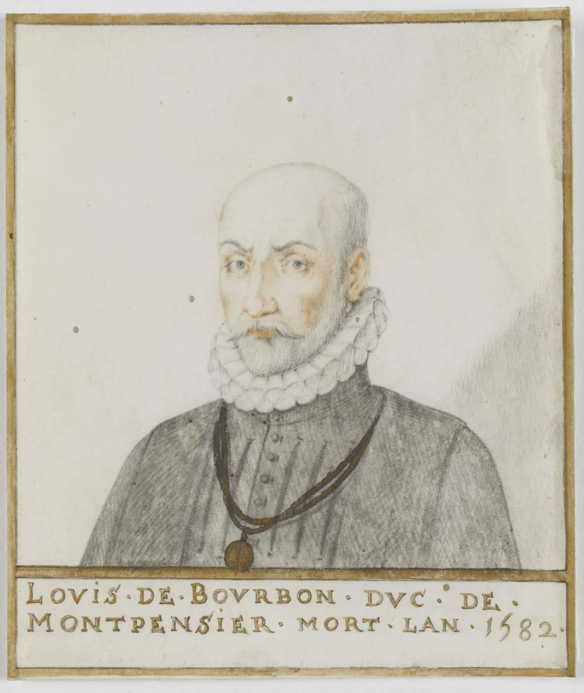 Portrait of Louis III, Duke of Montpensier